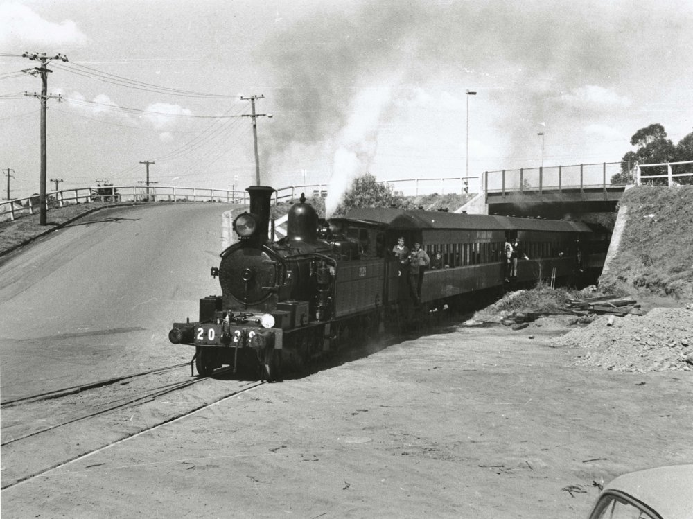 Class Z2029 (E100) locomotive - ANZAC branch tour Dated: No date Digital ID: 17420-a014-a014000513 Rights: We'd love to hear from you if you use our photos/documents. Many other photos in our collection are available to view and browse on our website using Photo Investigator.